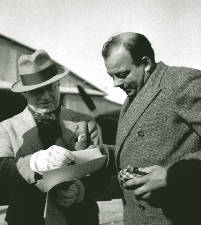 Saint-Exupéry and Marcel Peyrouton (French General Resident). Tunis 1935